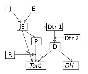 This drawing illustrates Documentary hypothesis, a theory about Bible books. This image is replacement for an bitmap image with similar content. English sentences were removed so drawing can be used in any language version of the Wikipedia. Explanation of abbreviations: J - Yahwist source E - Elohist source D - Deuteronomist source, includes most of the Deuteronomy P - Priestly source, includes most of the Leviticus R - "Redactors", editors who compiled the sources DH - "Deuteronomic History": Joshua, Judges, Samuel 1 & 2, Kings 1 & 2